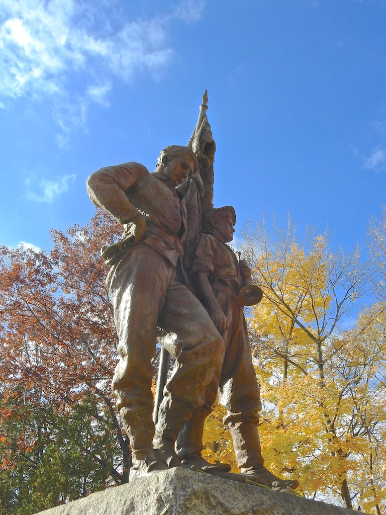 Sally (Sara) James Farnham sculpture, Defenders of the Flag, in Mount Hope Cemetery, Rochester, New York.